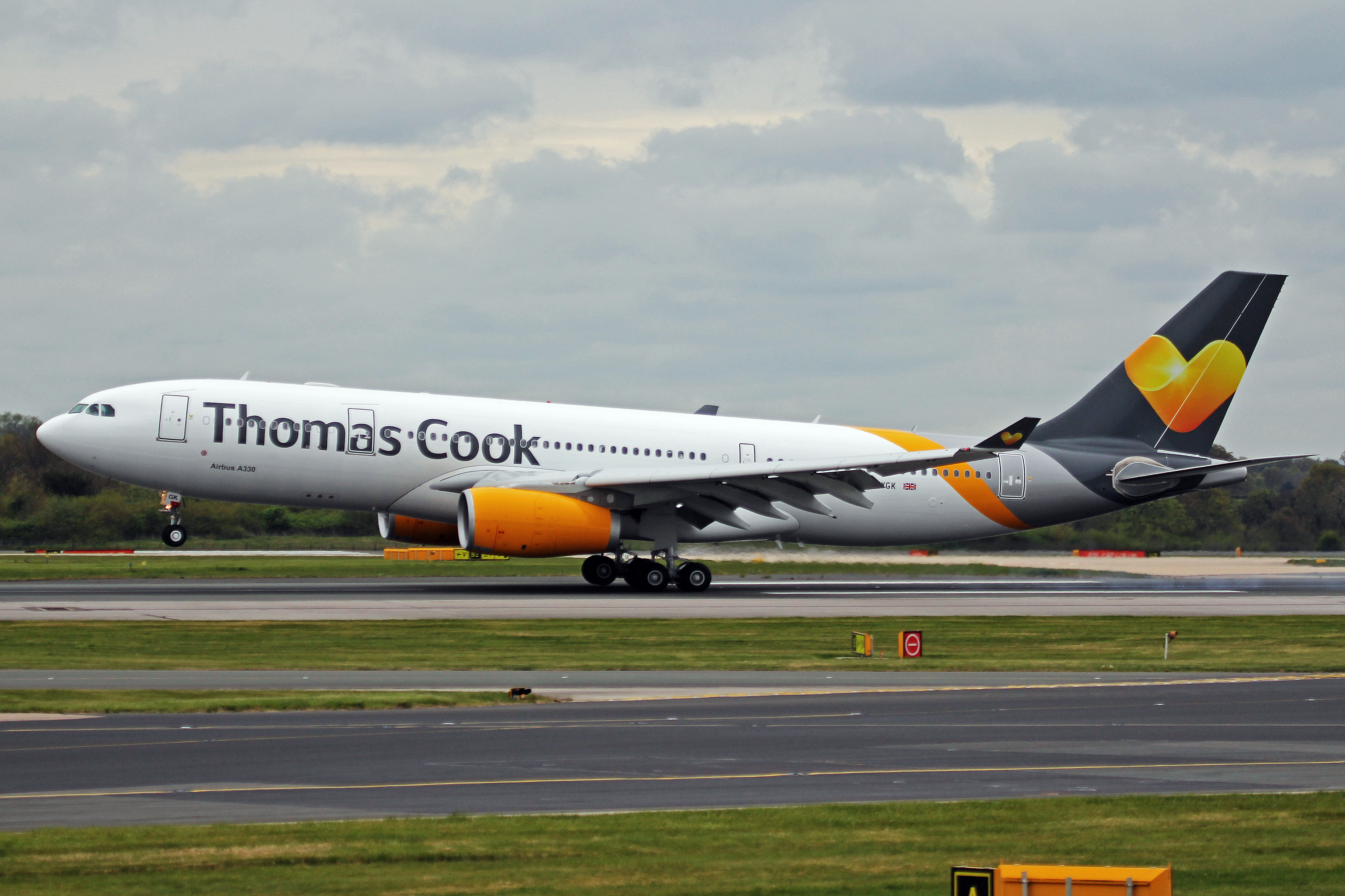 G-VYGK Airbus A330-243 Thomas Cook Airlines UK MAN 02MAY15